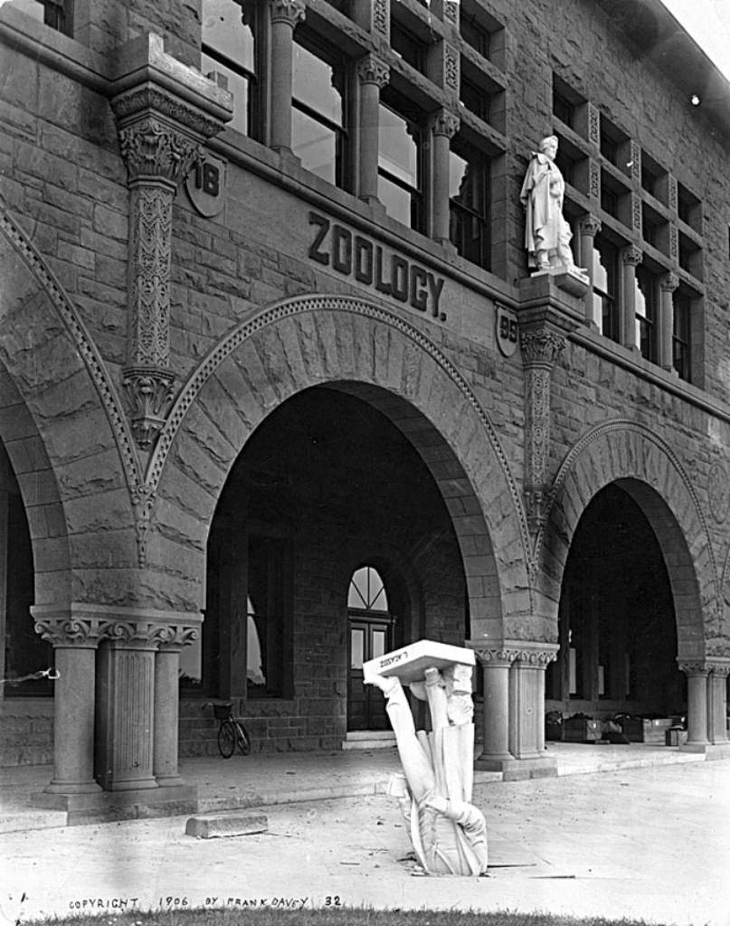 Stanford University zoology building with fallen statue of zoologist Louis Agassiz implanted (1906). Damage after the 1906 San Francisco earthquake in the University's Richardsonian Romanesque style Main Quad.